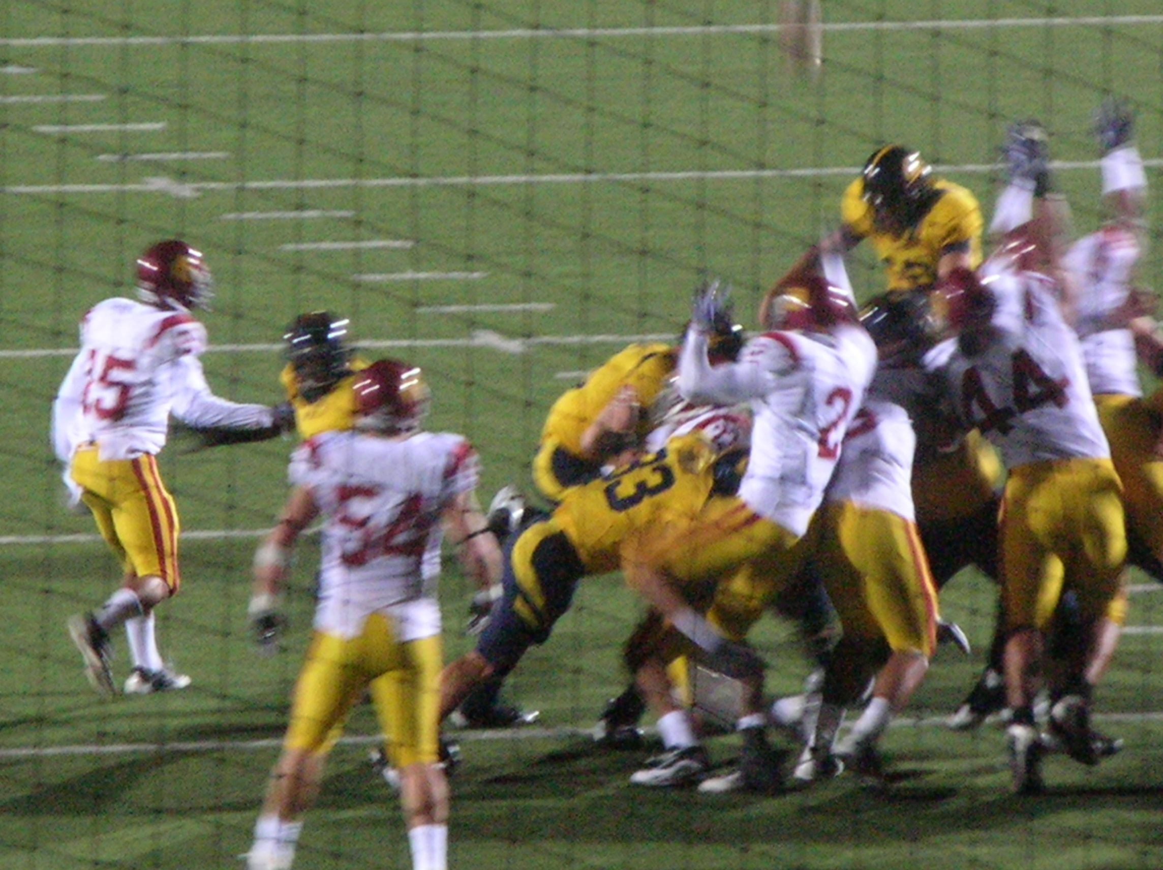 The California Golden Bears kick a field goal during a home game against the USC Trojans. The Trojans won 30-3.